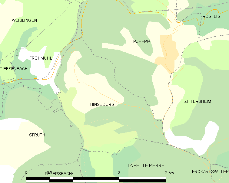 Map of French municipality